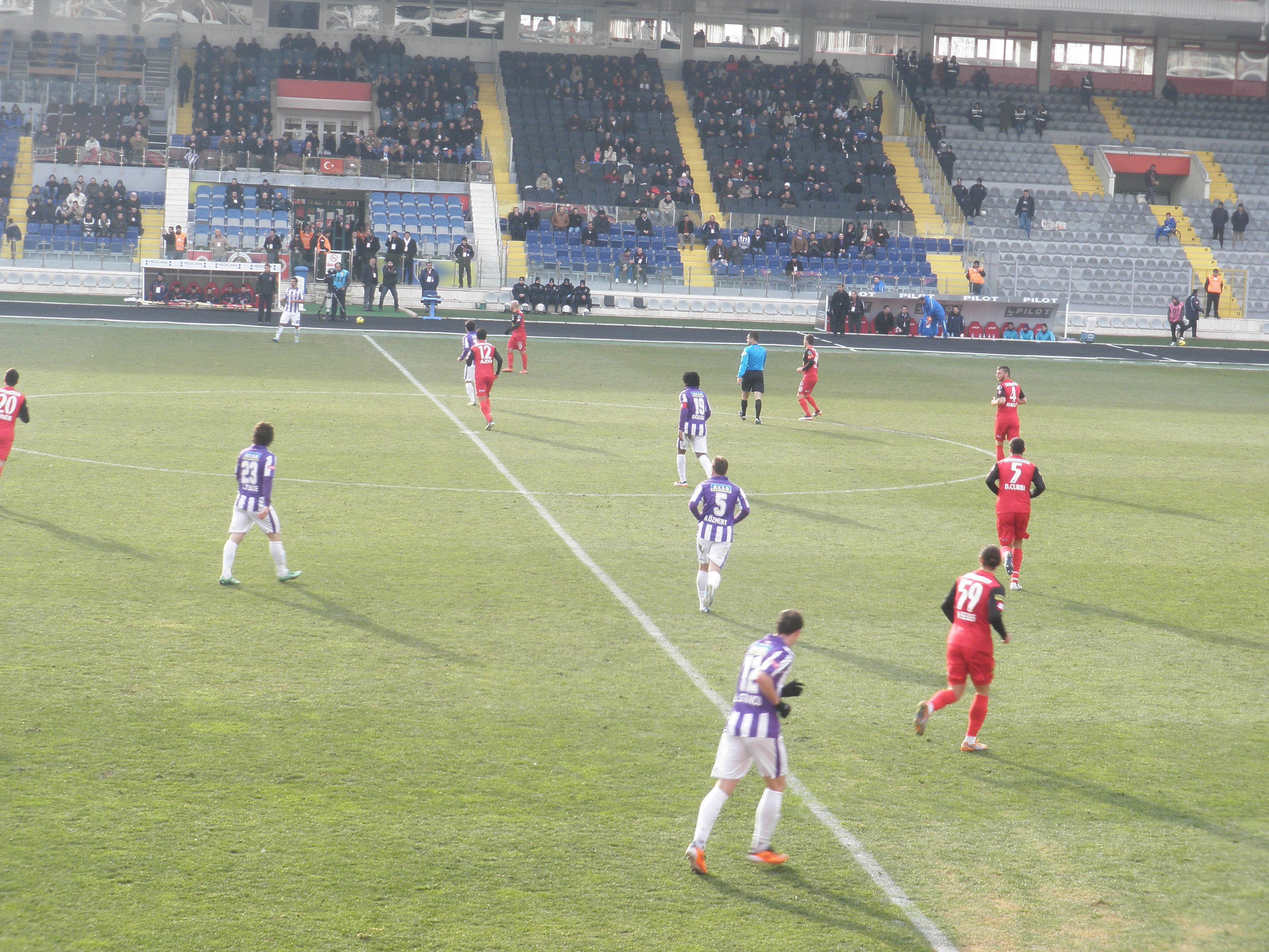 Turkish Super League match: Gençlerbirliği 3-1 Orduspor